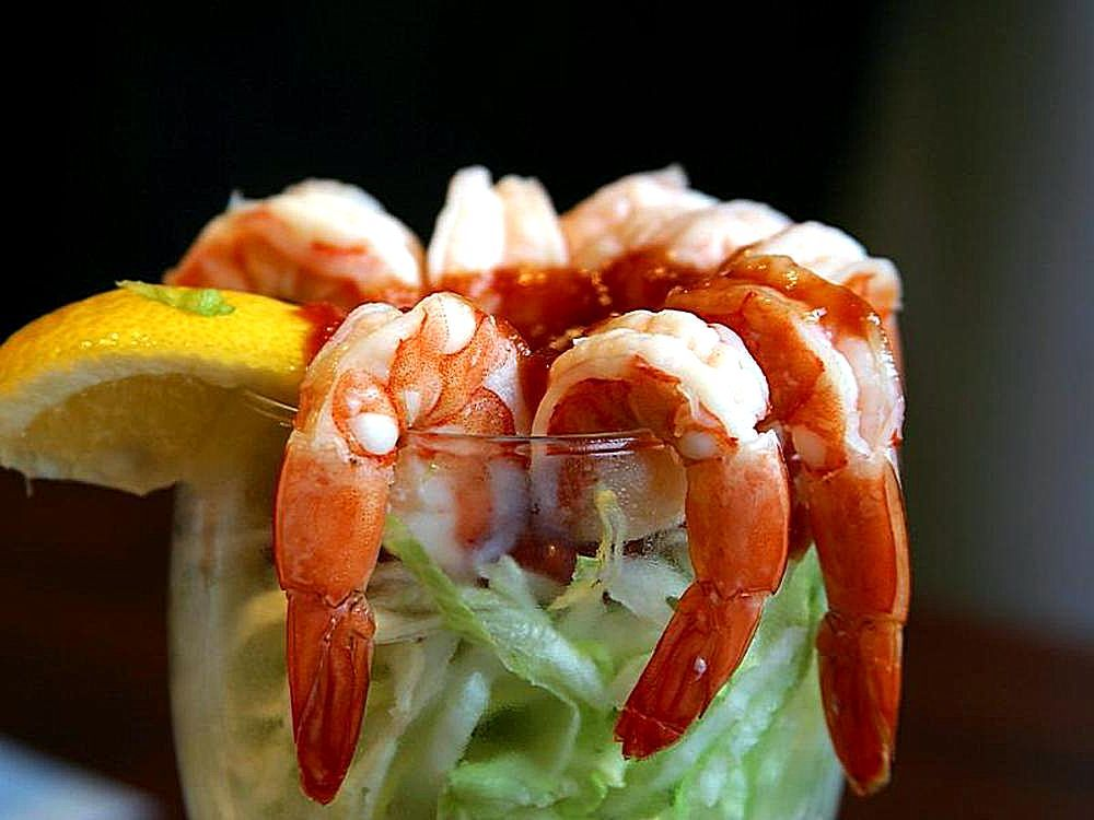 Image title: Shrimp cocktail lemons lettuce seafood Image from Public domain images website